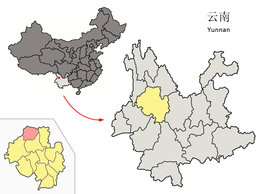 Location of Jianchuan County (pink) and Dali Prefecture (yellow) within Yunnan province of China Map drawn in september 2007 using various sources, mainly : Yunnan province administrative regions GIS data: 1:1M, County level, 1990 Yunnan Counties map from